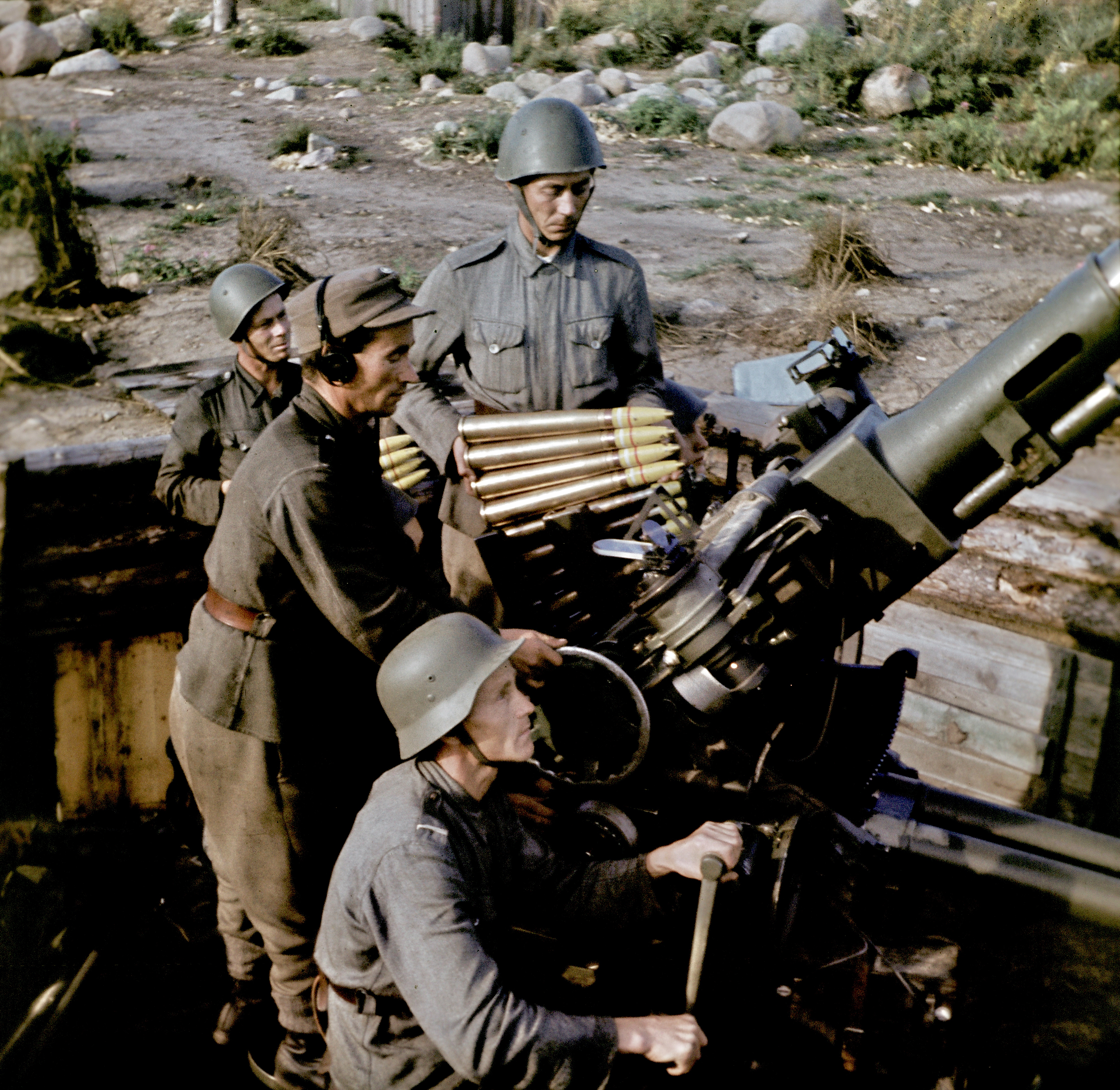 Bofors anti-aircraft gun at the fire station. Suulajärvi 1943.08.26